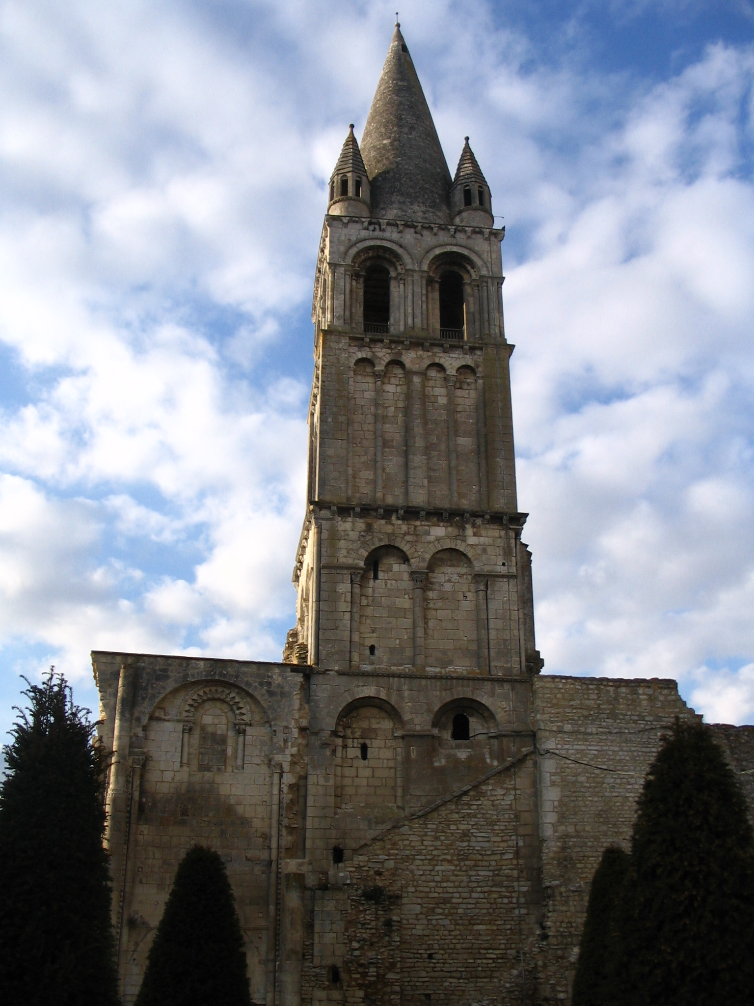 The abbey of Déols, Indre, France.